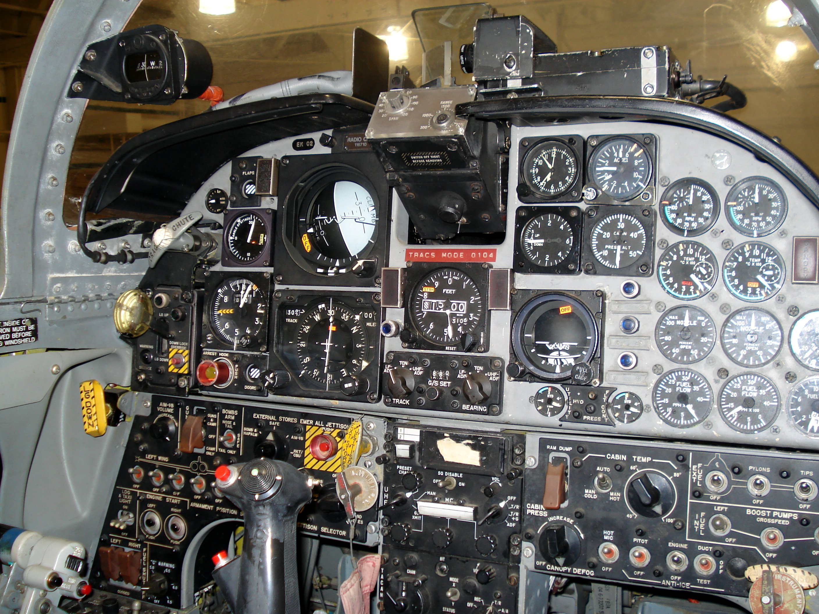 CF-5 cockpit at Base Borden Military Museum.